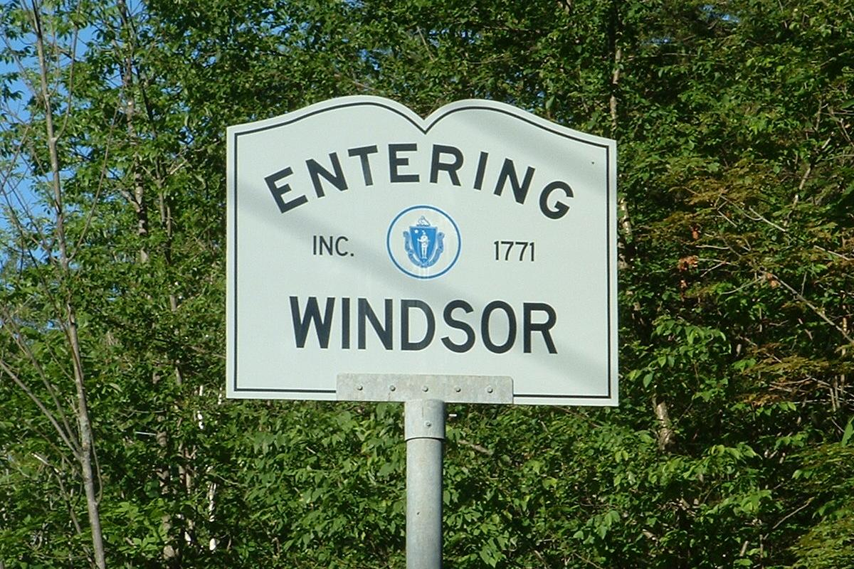 "Entering Windsor" road sign along Route 9. Windsor-Dalton town line, Route 9, Massachusetts